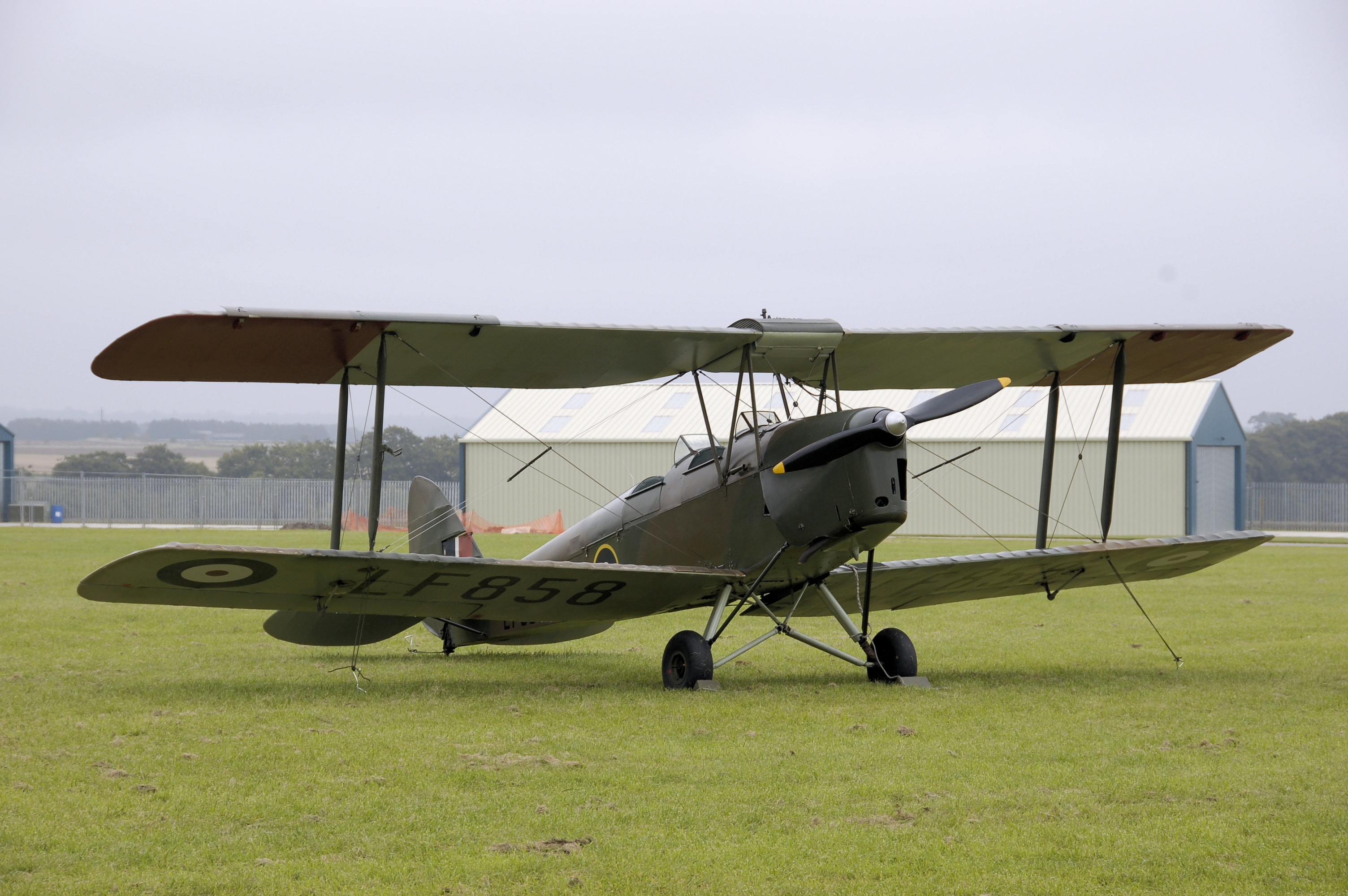 de Havilland DH-82B Queen Bee (LF858, G-BLUZ) at the 2008 Open Day, Kemble Airport, Gloucestershire, England.